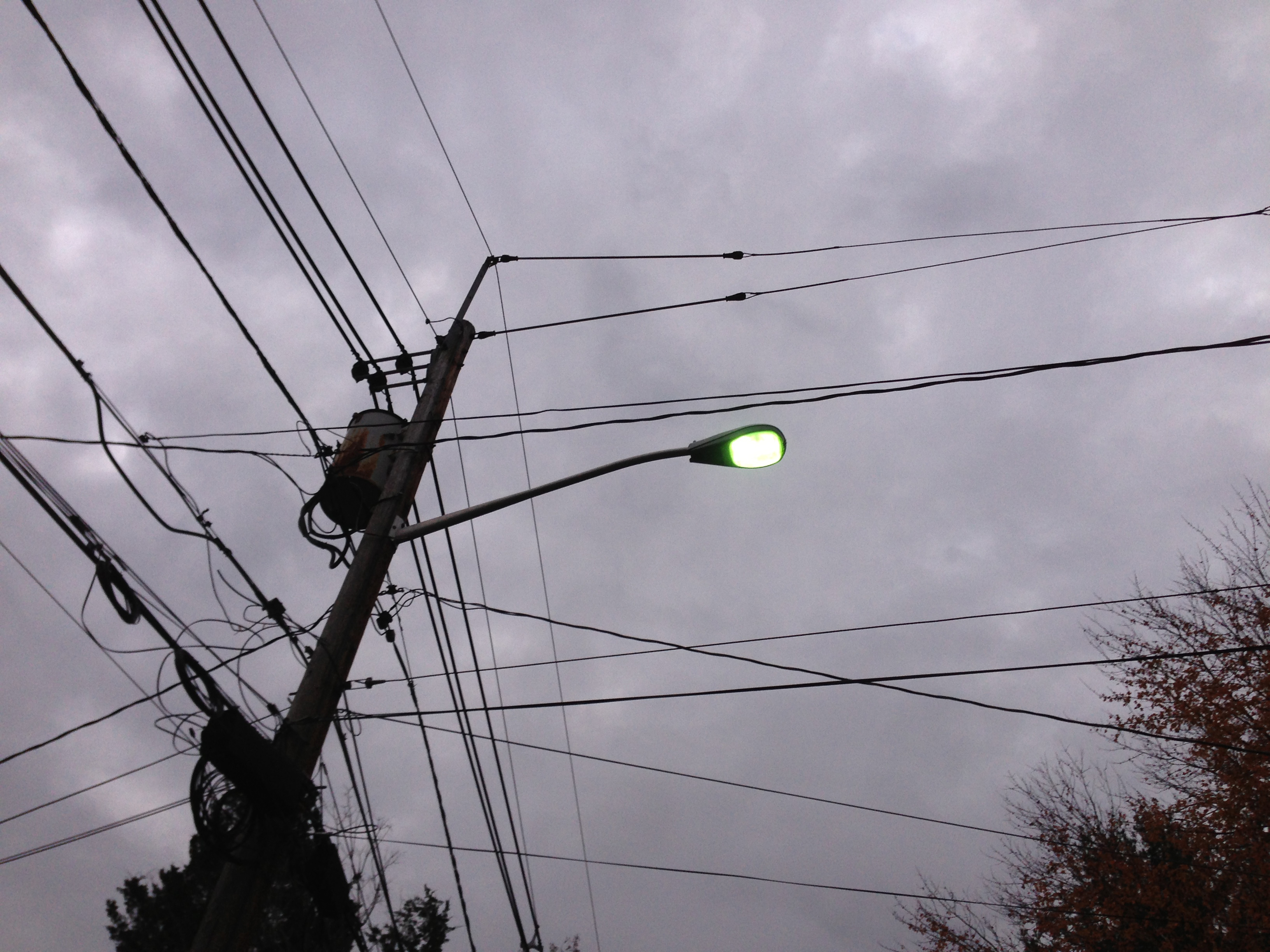 Recently activated mercury vapor street light along Terrace Boulevard in Ewing, New Jersey